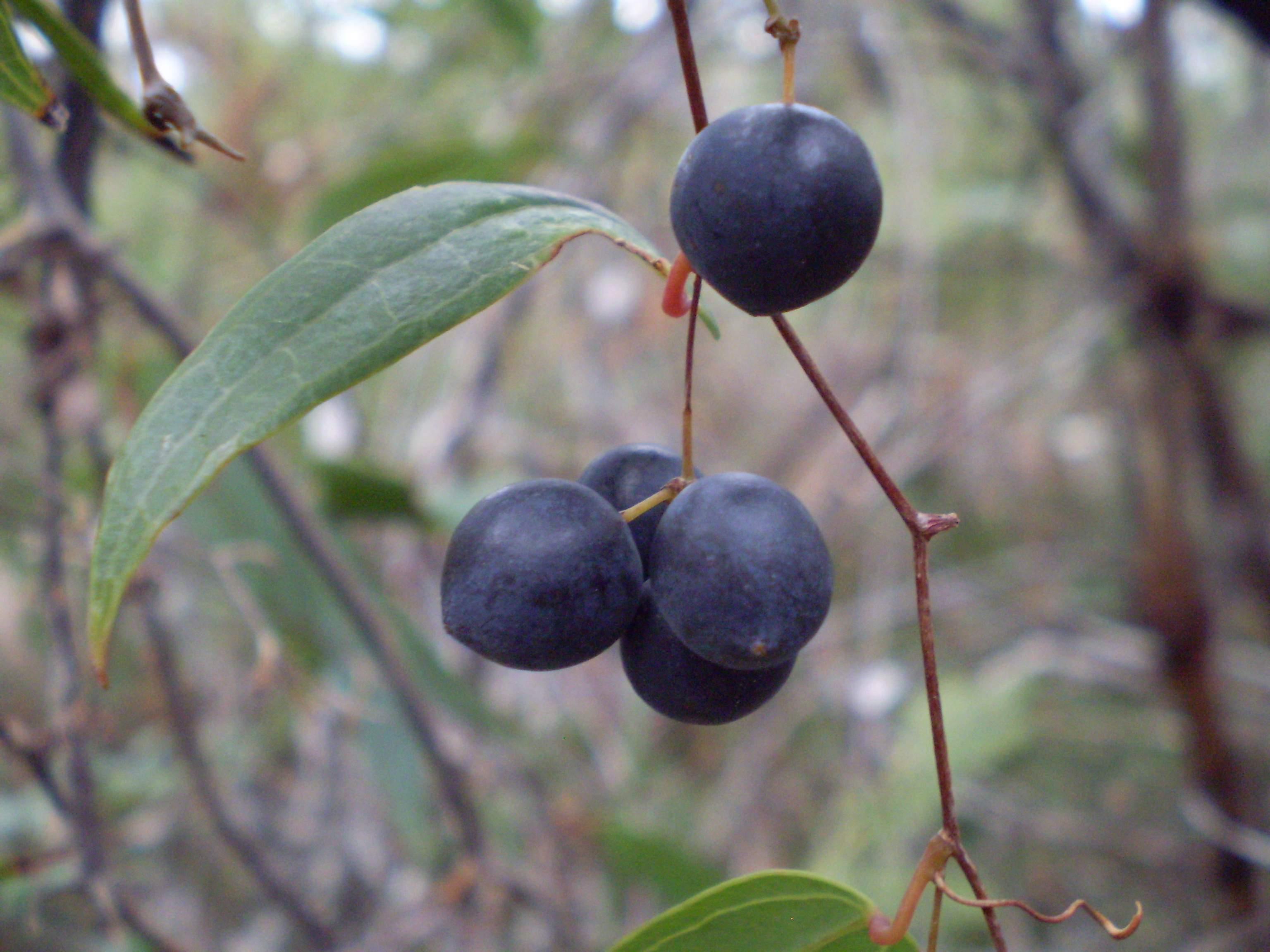 Smilax glyciphylla, fruit and leaf, Native Sarsparilla.